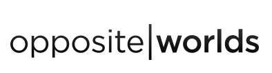 Logo of the SyFy TV series Opposite Worlds